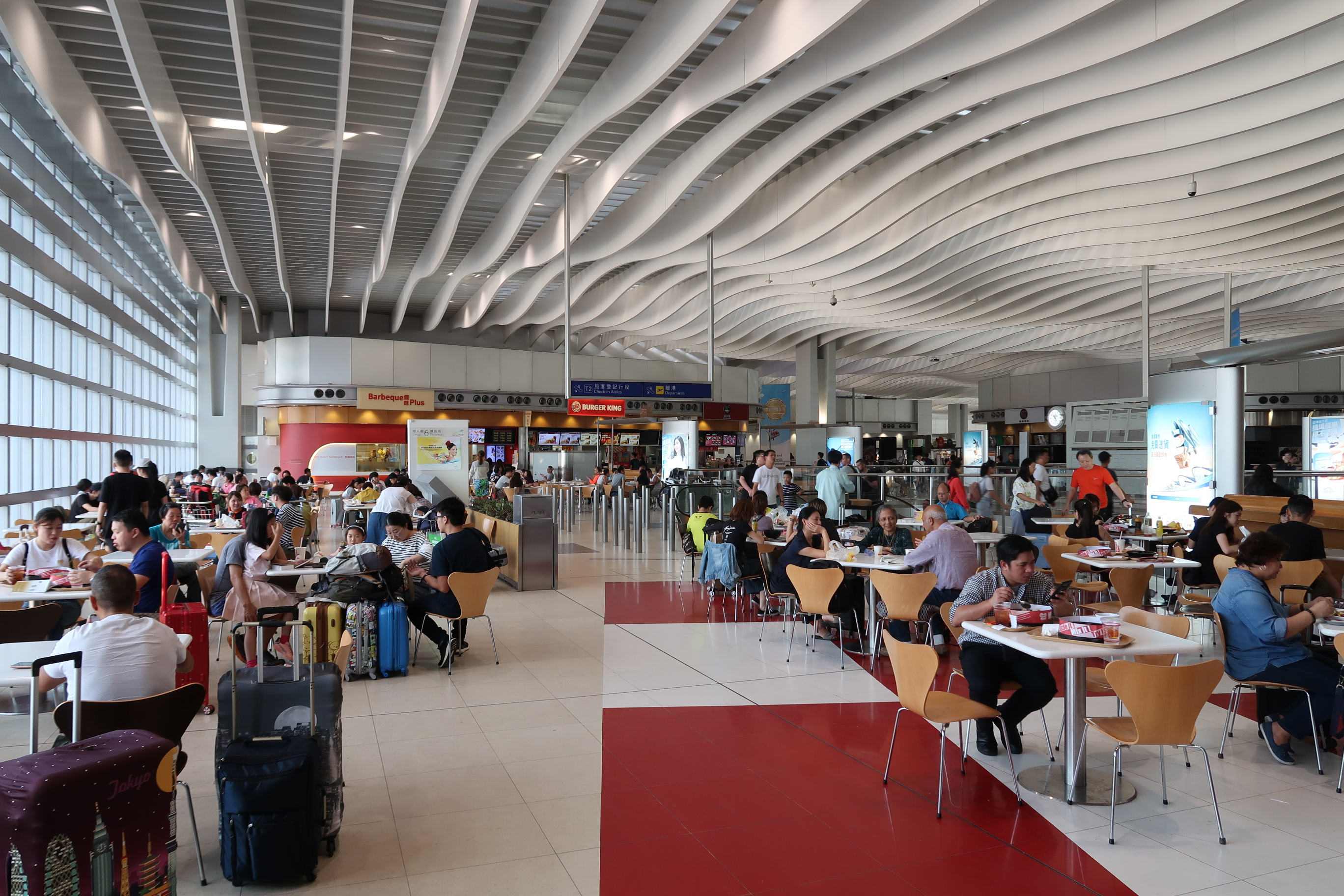 SkyPlaza Food Court